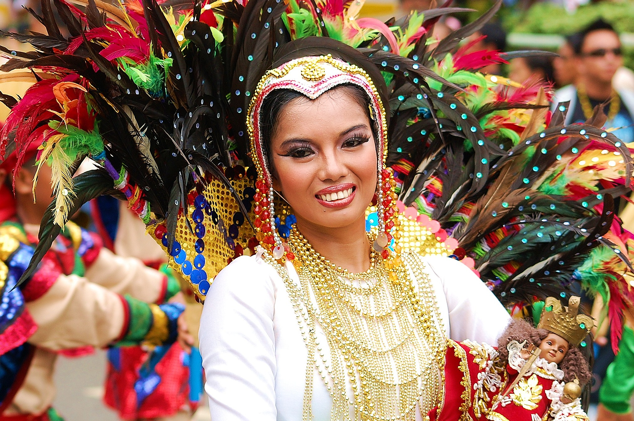 A woman during the Sinulog Festival 2009.